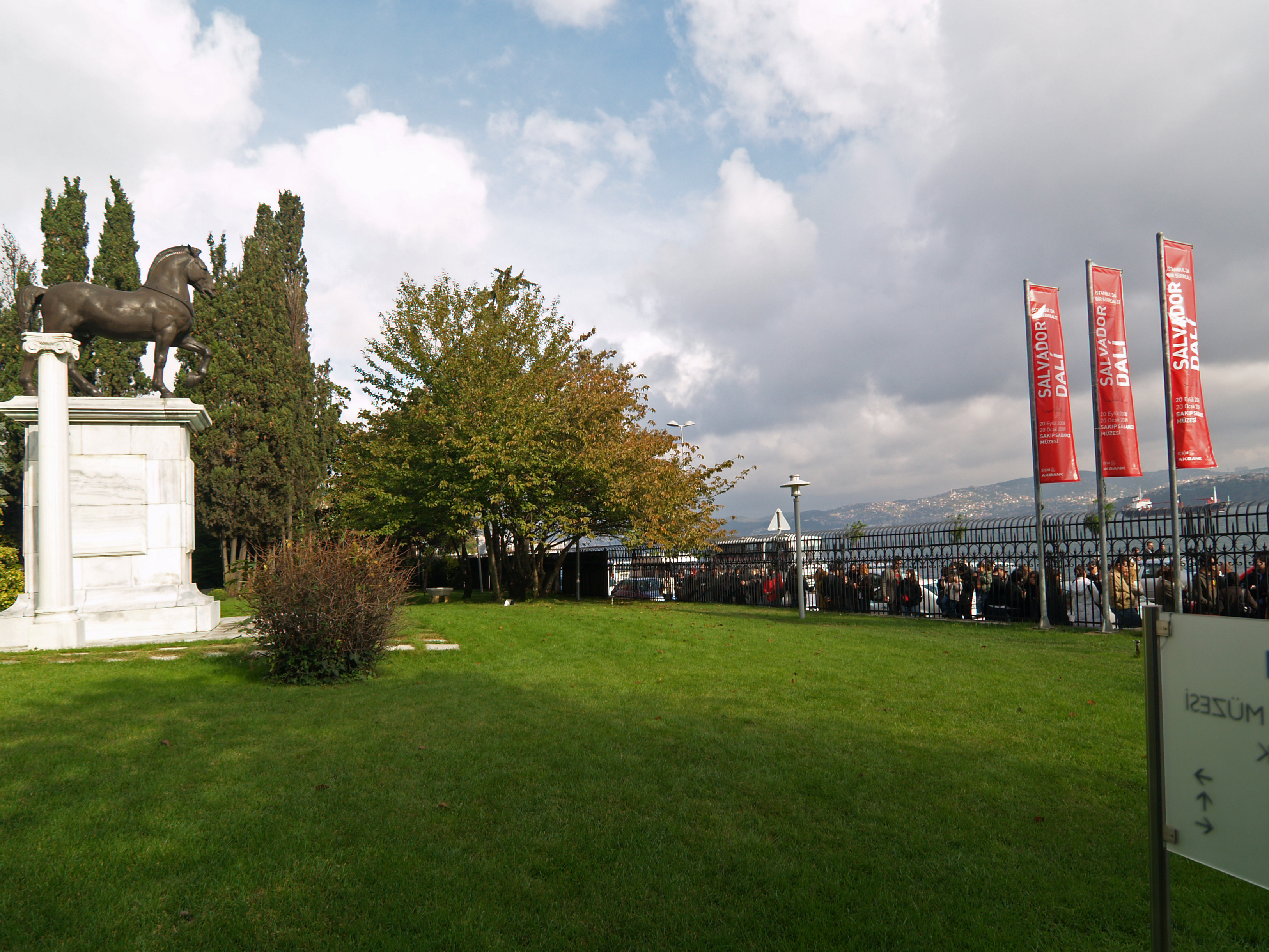 A queue at Sakip Sabanci Museum for the Salvador Dali Exhibition